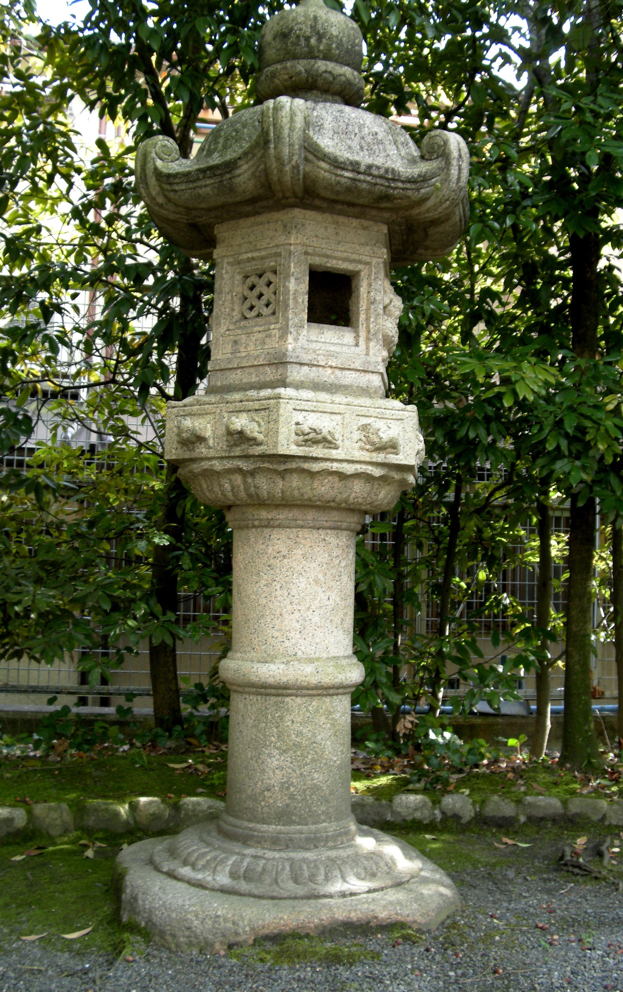 The Stone Lantern Prince Saionji used to own.